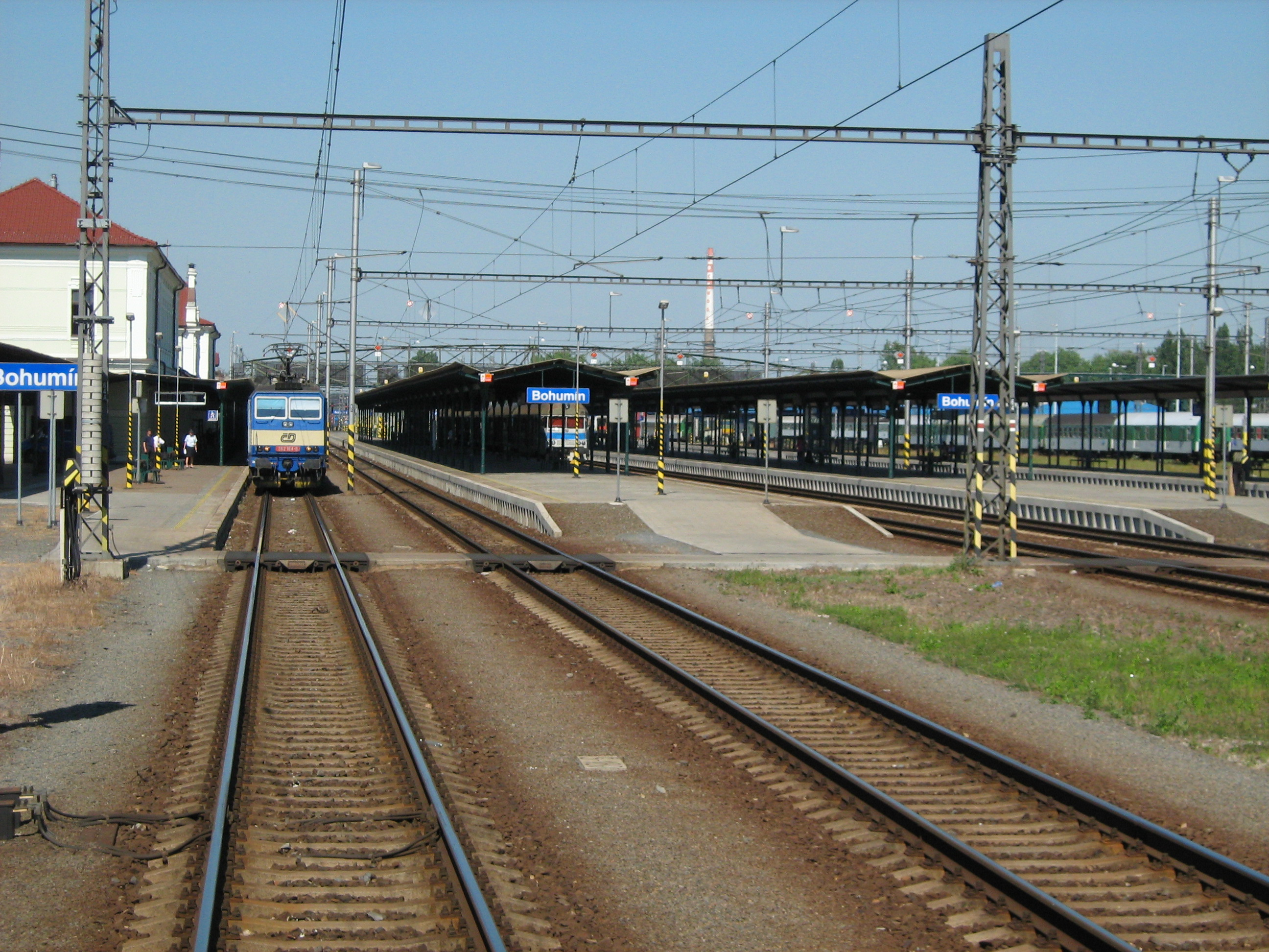 Train station in Bohumín, view from the tracks